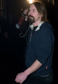 Sergey Troitsky (January 2009)